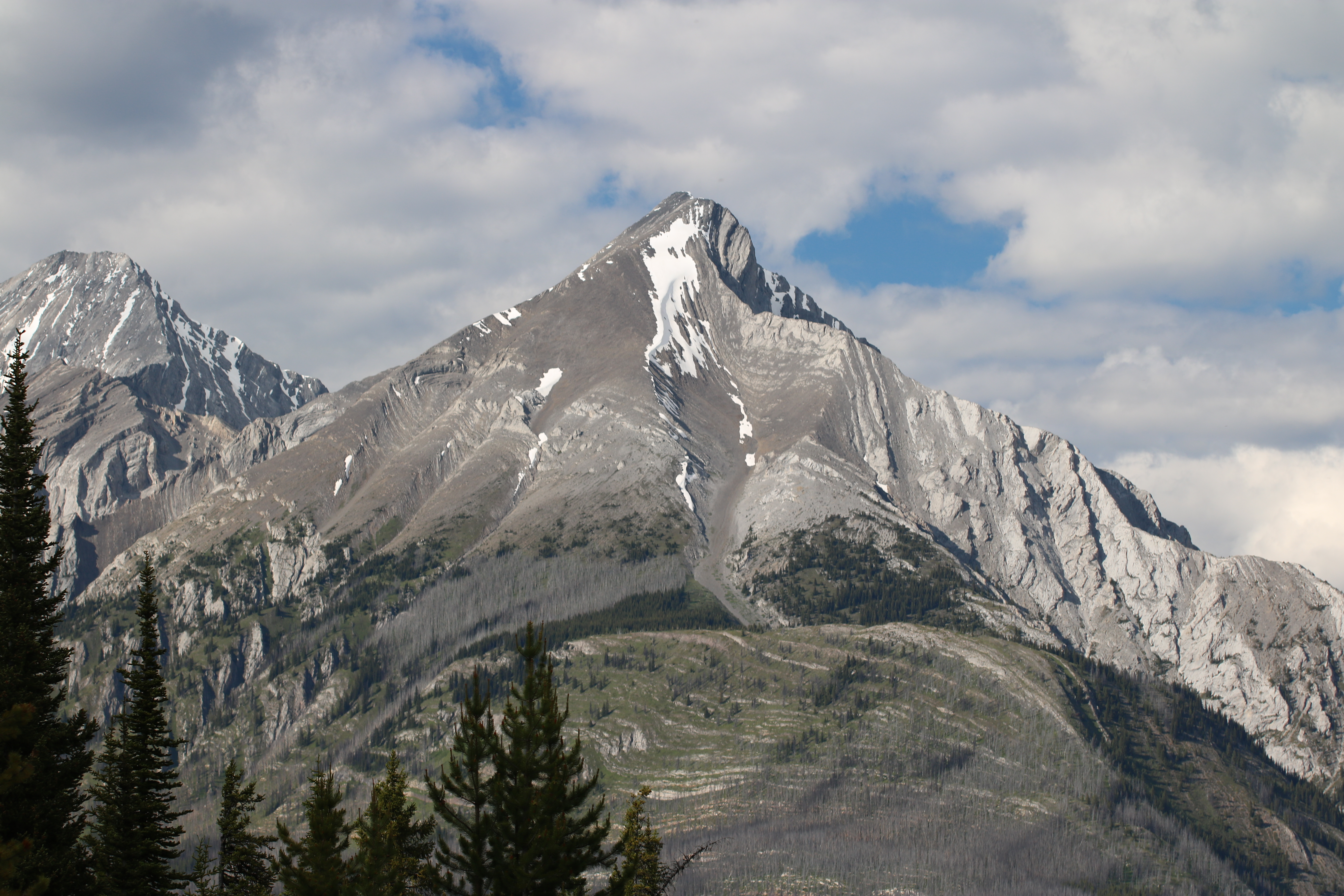 Some of the mountain peaks along this trail are amazing in this light and add to the wonder of the trails for sure.